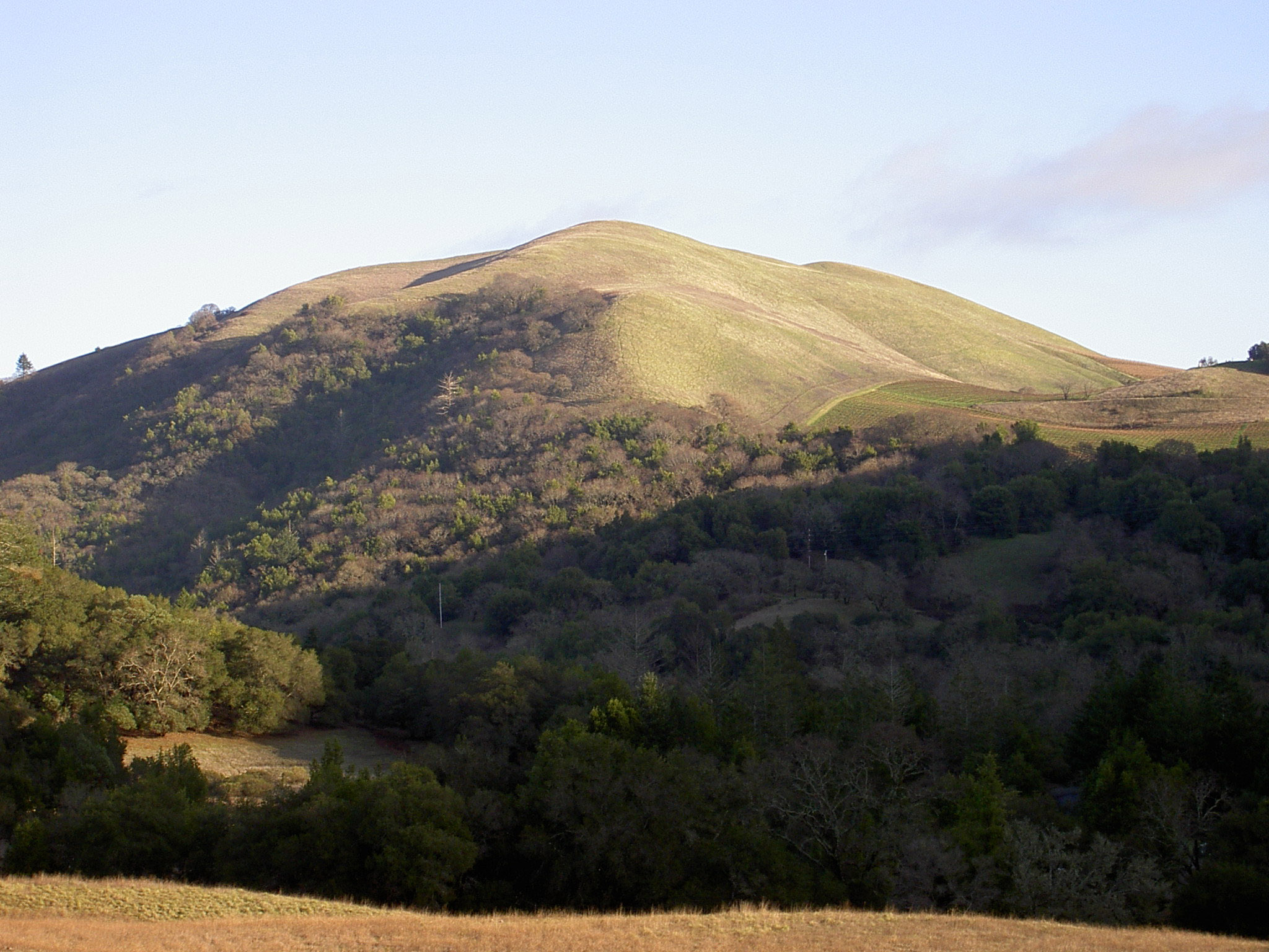 the southern Bald Mountain (2275 ft), viewed from the northwest